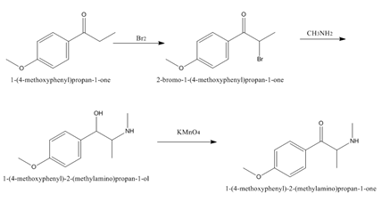 Synthese van Methedrone